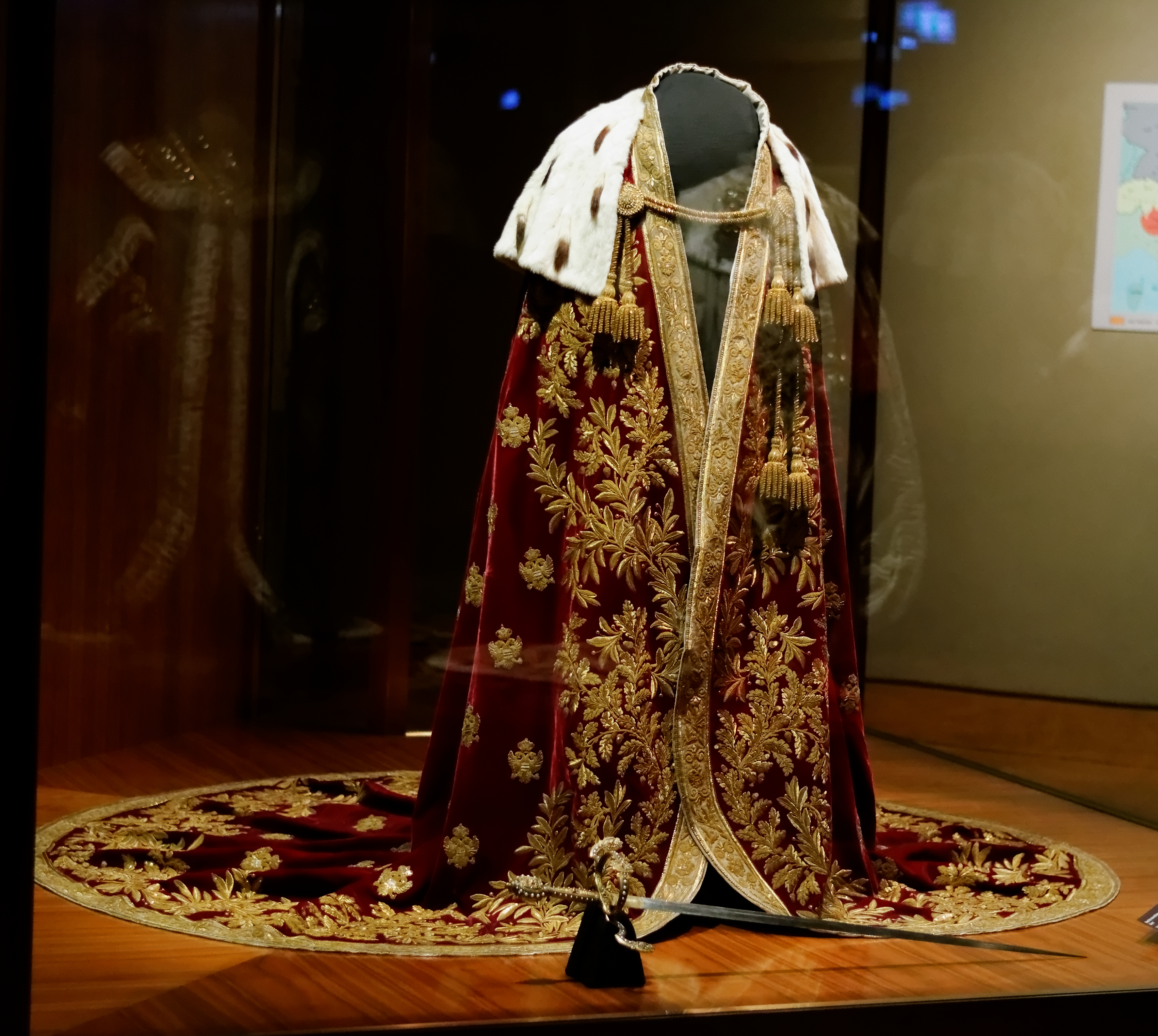 Mantle of the Austrian Emperor. Design : Philipp von Stubbenrauch (1784-1848). Execution :Johann Fritz (embroiderer) Vienna 1830. Velvet guimped embroidery in gold, pailettes, gold braid, ermine, silk